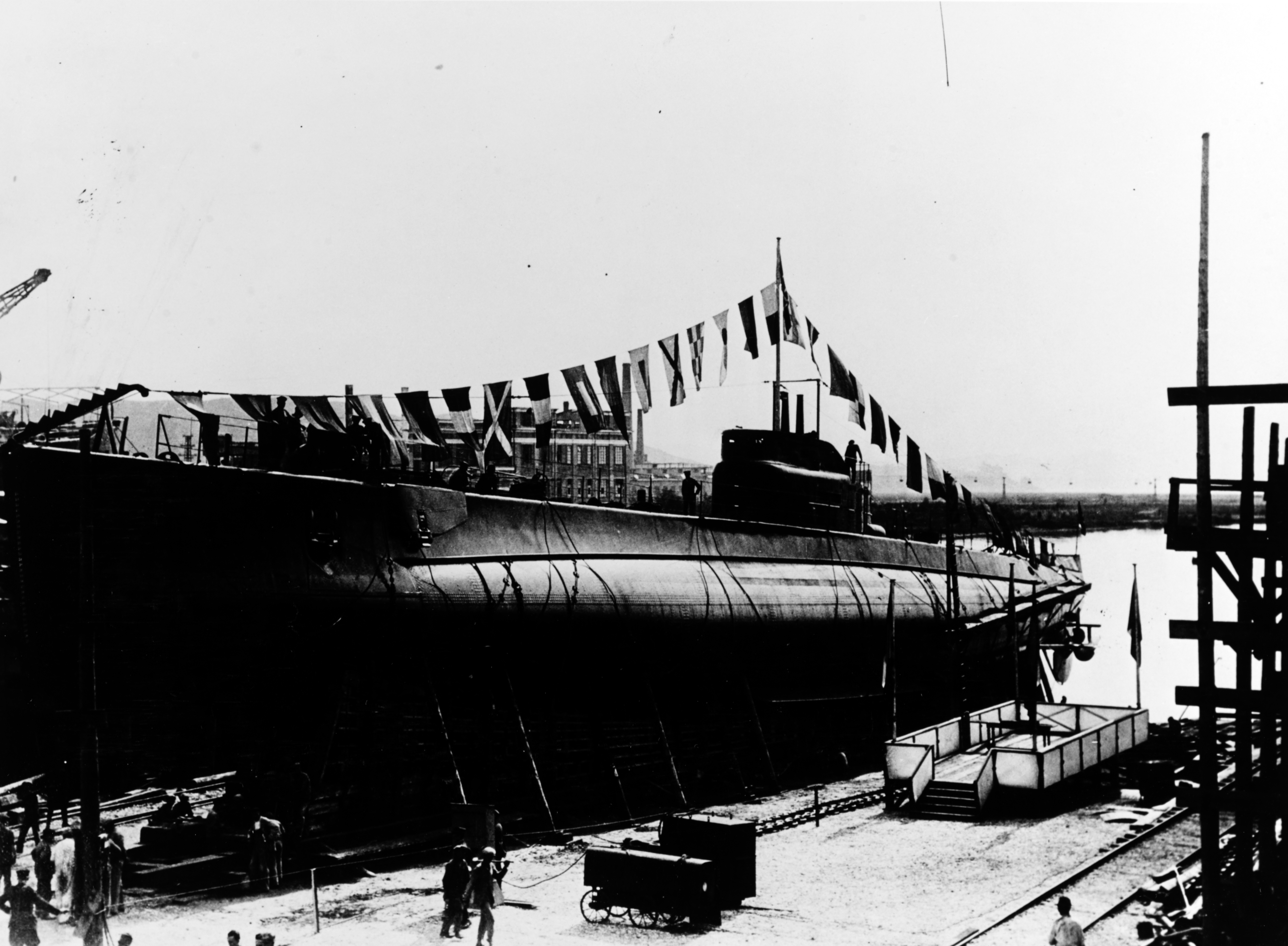 The Italian submarine Tricheco decorated for her christening ceremony